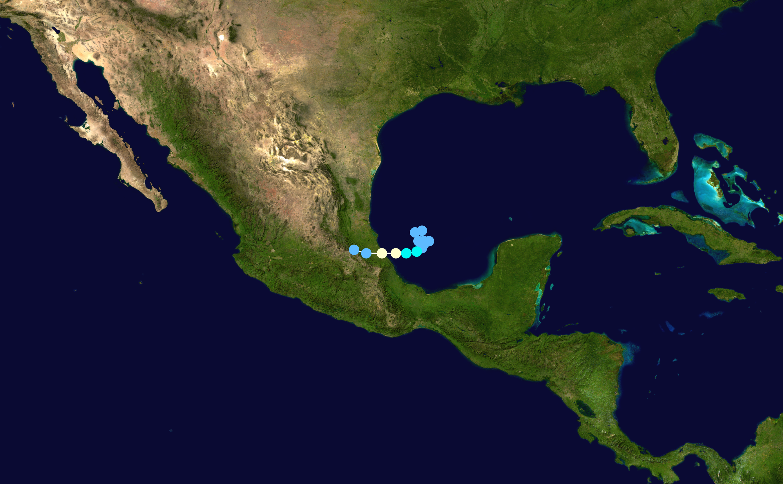 Track map of Hurricane Lorenzo of the 2007 Atlantic hurricane season. The points show the location of the storm at 6-hour intervals. The colour represents the storm's maximum sustained wind speeds as classified in the Saffir–Simpson scale (see below), and the shape of the data points represent the nature of the storm, according to the legend below. Saffir–Simpson scale Tropical depression≤38 mph≤62 km/h Category 3111–129 mph178–208 km/h Tropical storm39–73 mph63–118 km/h Category 4130–156 mph209–251 km/h Category 174–95 mph119–153 km/h Category 5≥157 mph≥252 km/h Category 296–110 mph154–177 km/h Unknown Storm type Tropical cyclone Subtropical cyclone Extratropical cyclone / Remnant low / Tropical disturbance / Monsoon depression